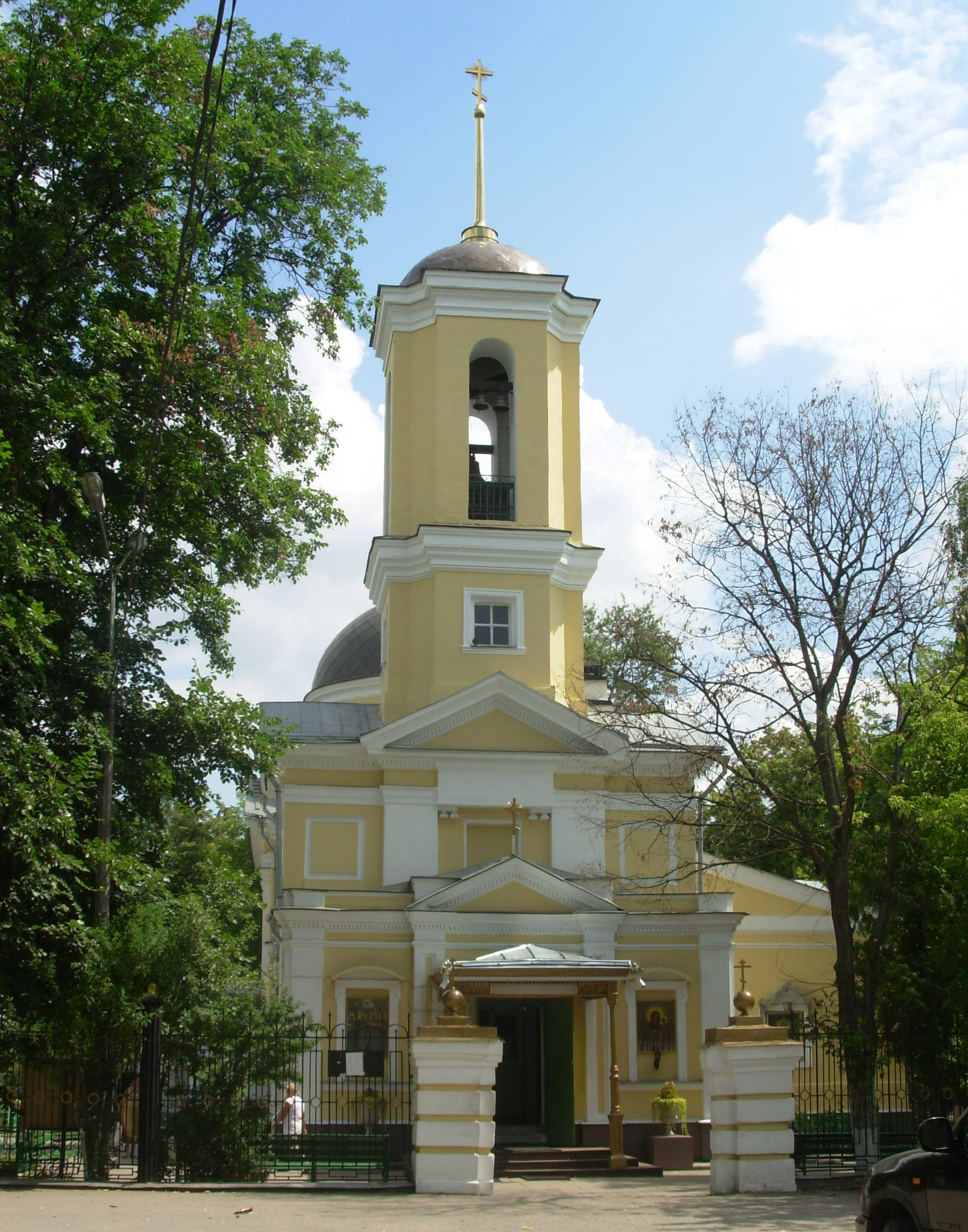 Saints Cosmas and Damian church (Korolyov)